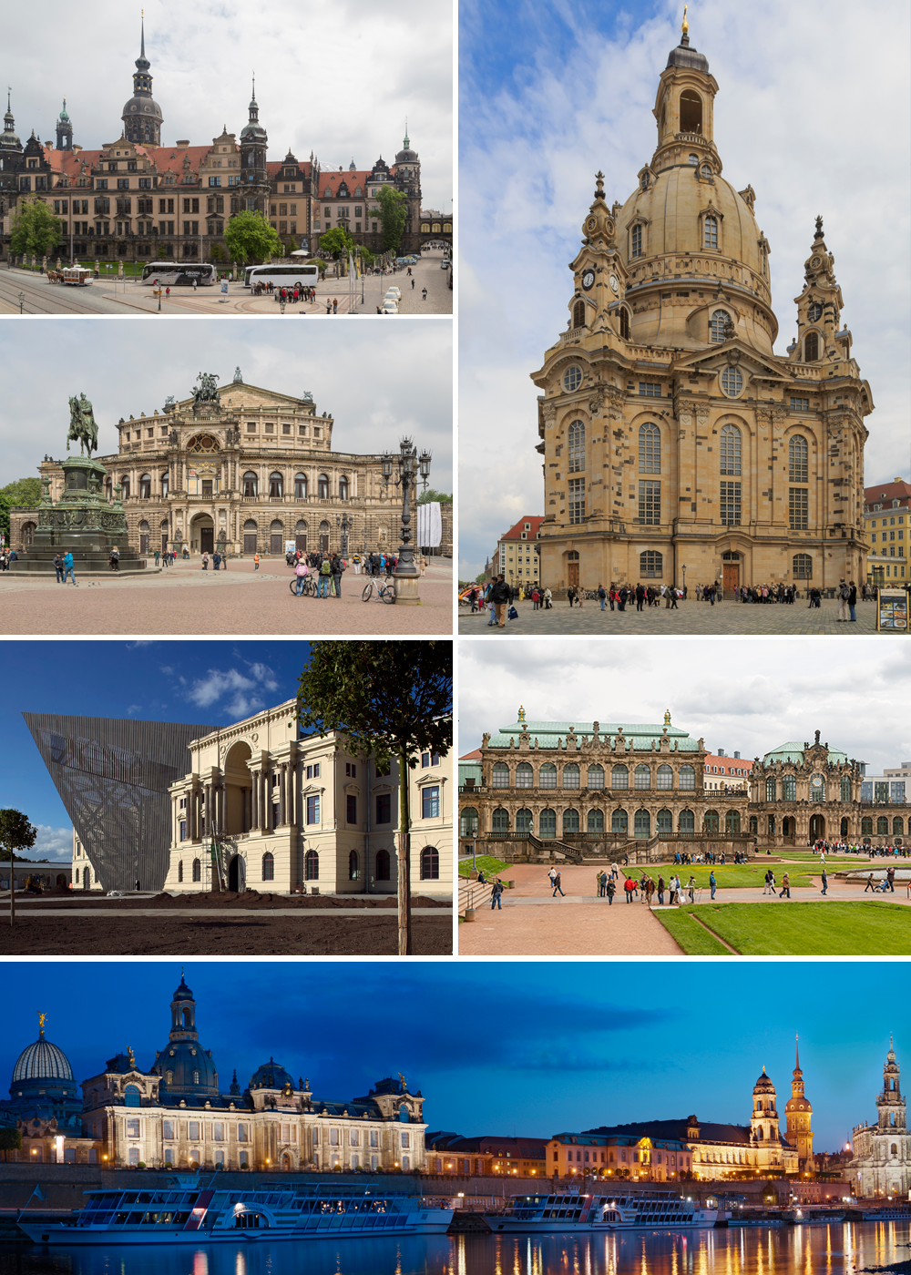 Collage for Dresden Article